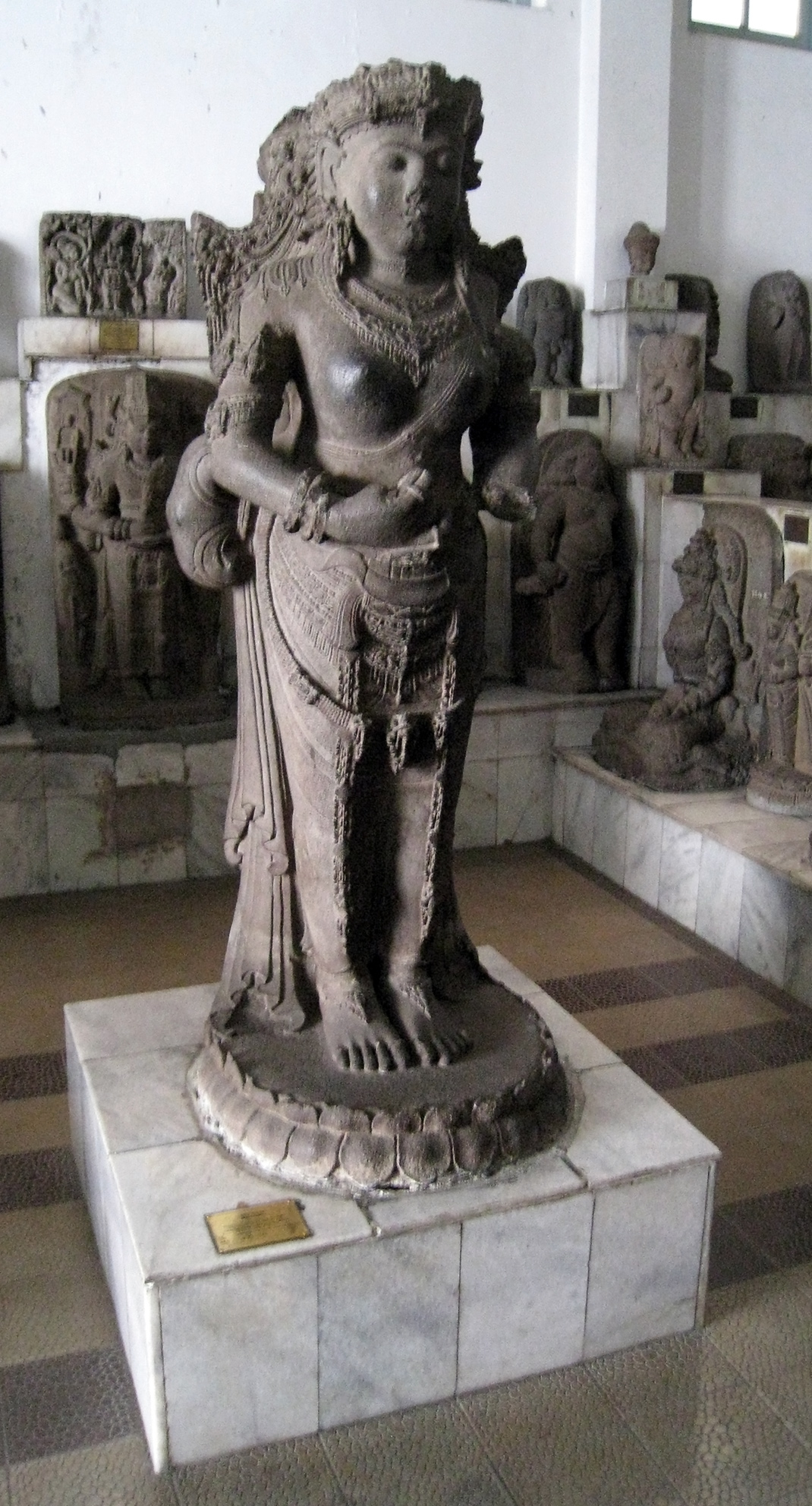 The mortuary deified portrait statue of Queen Suhita, the empress of Majapahit (reign 1429-1447 CE). The statue discovered at Jebuk, Kalangbret, Tulungagung, East Java, Indonesia. Colection of National Museum of Indonesia, Jakarta, inventory number 6058.